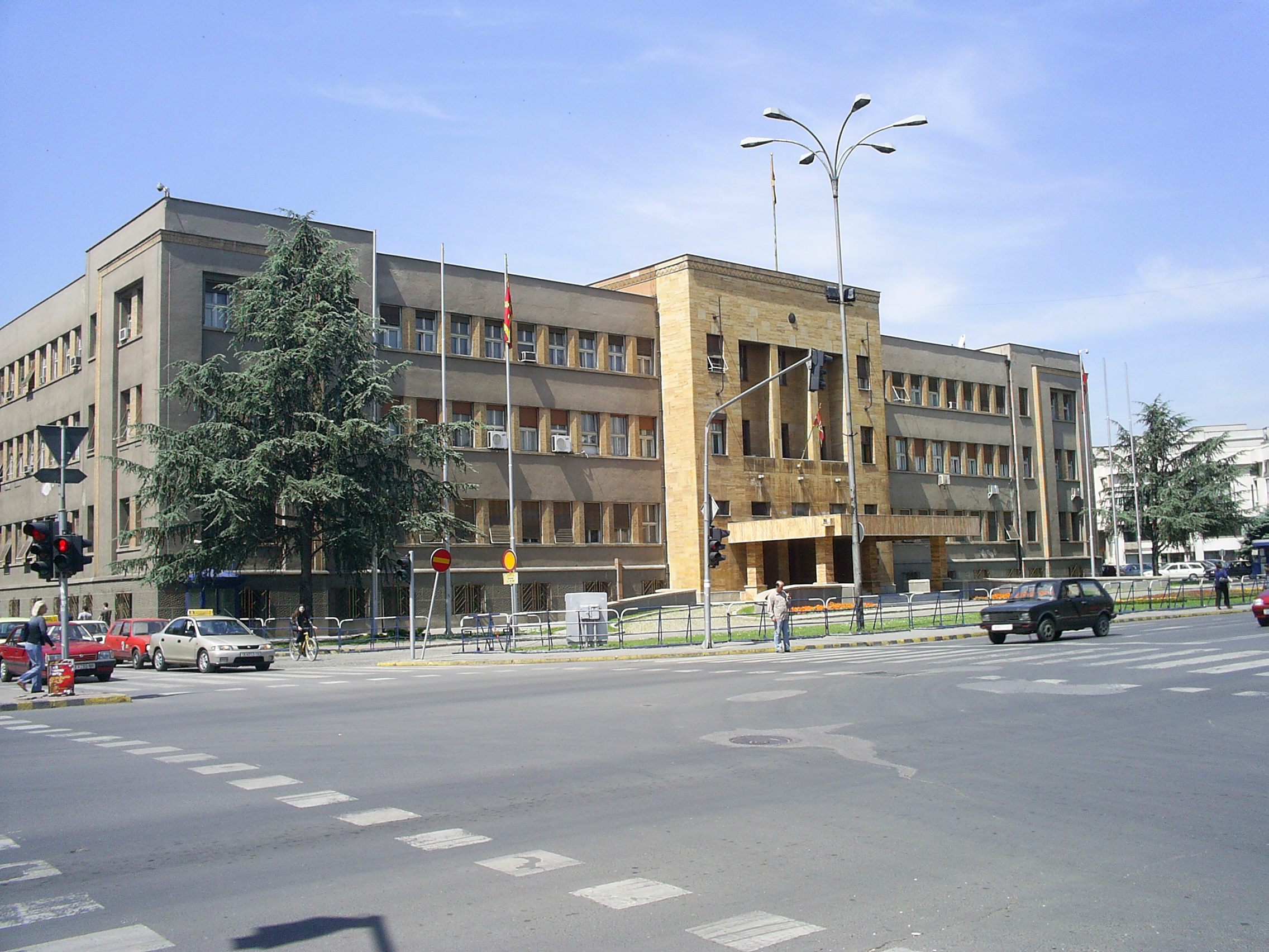 The Parliament building in Skopje